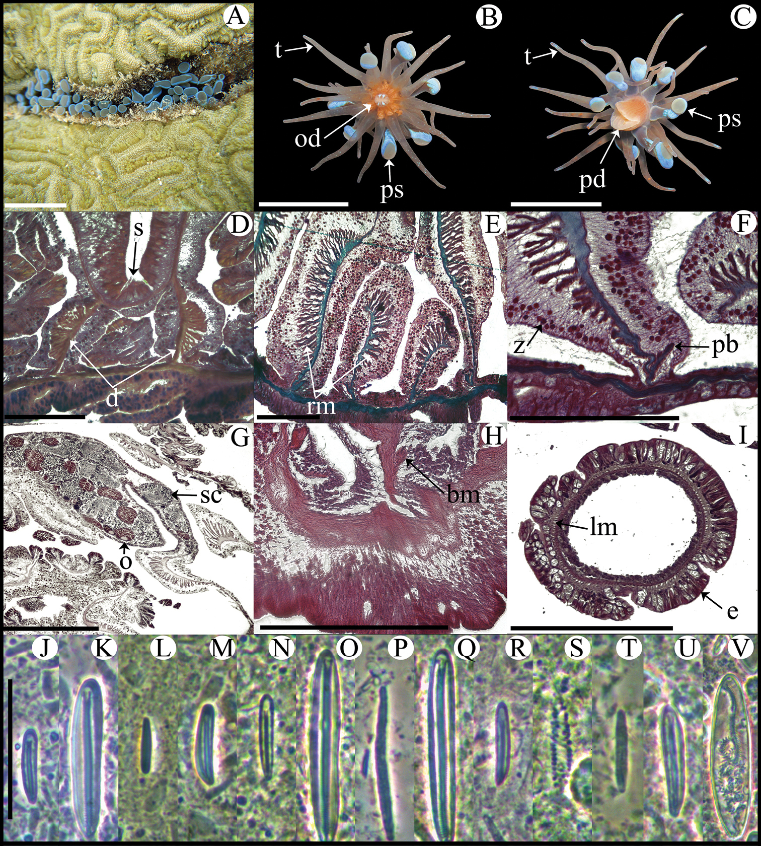 Lebrunia coralligens. A Live specimen in natural habitat B Oral view C Pedal disc view D Cross section through distal column showing a siphonoglyph E Detail of retractor muscles F Detail of parietobasilar muscles G Detail of a mesentery showing oocytes and spermatic cysts H Longitudinal section through base showing basilar muscles I Cross section through tentacle J–V Cnidae.– actinopharynx: J small microbasic p-amastigopore K microbasic p-amastigophore; column: L small basitrich M small microbasic p-amastigophore; filament: N small microbasic p-amastigophore O microbasic p-amastigophore; tentacle: P basitrich Q microbasic p-amastigophore R small microbasic p-amastigophore S spirocyst; pseudotentacle: T basitrich U microbasic p-amastigophore V macrobasic p-amastigophore. Abbreviations.– bm: basilar muscle, d: directives, e: epidermis, lm: longitudinal muscle, o: oocyst, od: oral disc, pd: pedal disc, pm: parietobasilar muscle, ps: pseudotentacle, rm: retractor muscle, s: siphonoglyph, sc: spermatic cyst; t: tentacle, z: zooxanthellae. Scale bars: A–C: 10 mm; D–H: 200 μm; I: 100 μm; J–U: 25 μm; V: 20 μm.